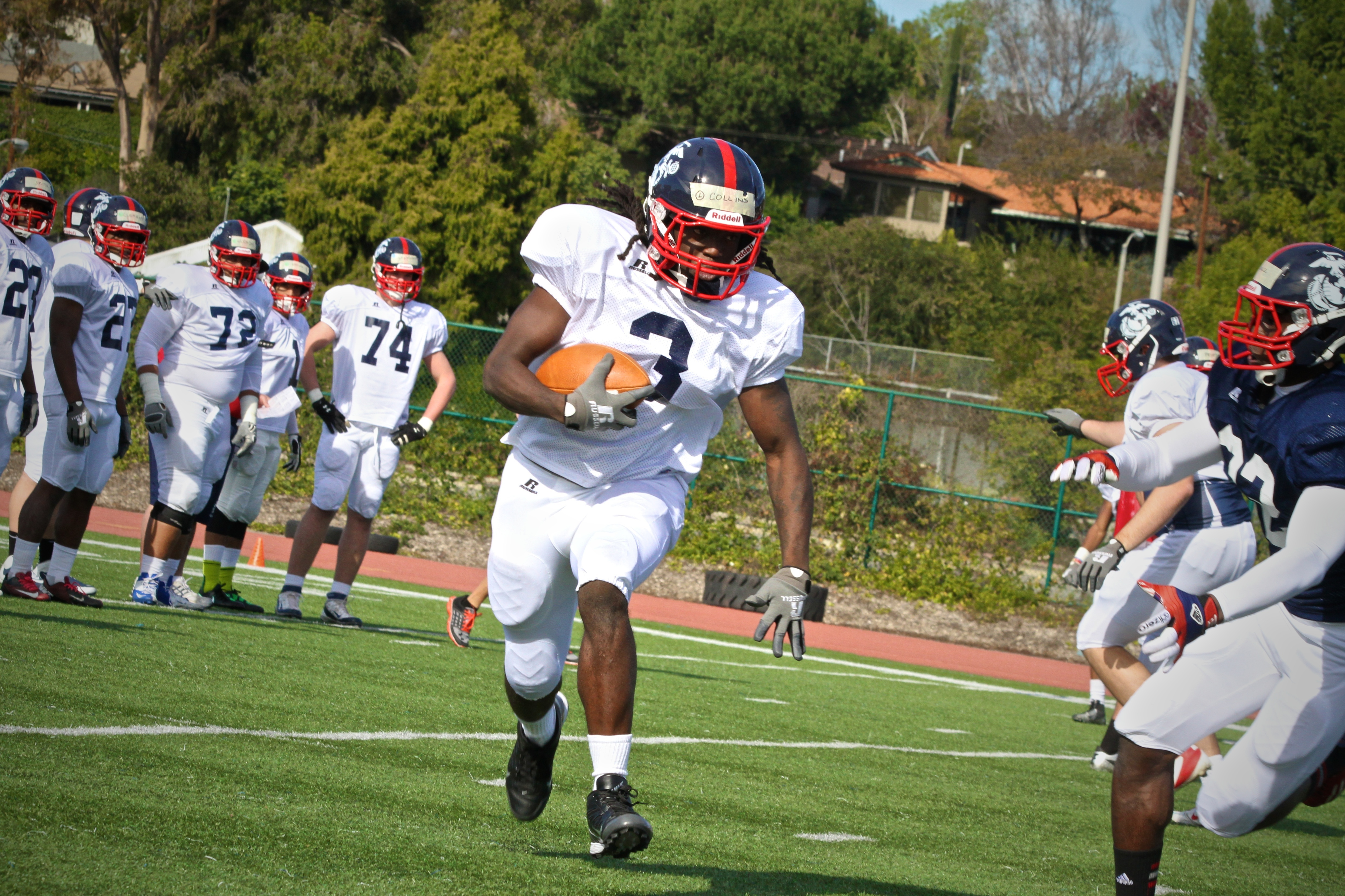 Alex Collins, a running back with the east coast team of the Semper Fidelis All-American Bowl, attempts to spot a hole in the defensive line during the team's first practice on Dec. 31, 2012. Collins is from Plantation, Fla., and a student of South Plantation High School. The Semper Fidelis All-American Bowl will be nationally televised on the NFL Network from The Home Depot Center in Carson, Calif., at 6 p.m. Jan 4, 2013.